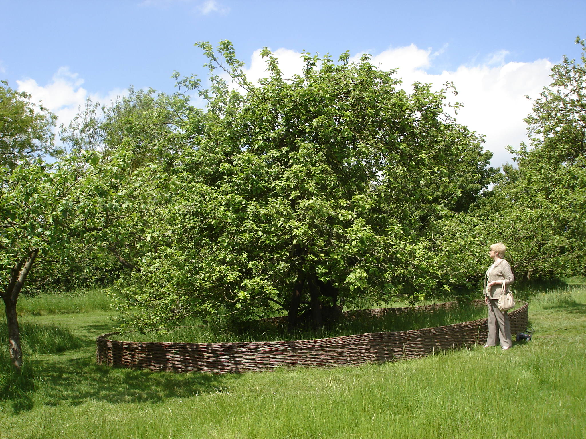 Apple tree in orchard at Woolsthorpe Manor where Isaac Newton saw the apple fall to earth.